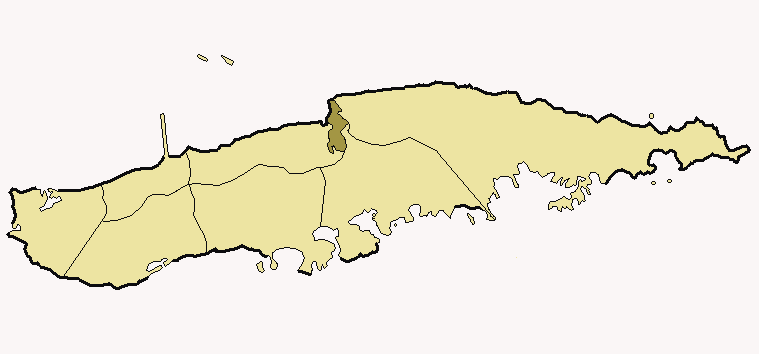 Map of Vieques (Puerto Rico) highlighting Isabel Segunda ward.